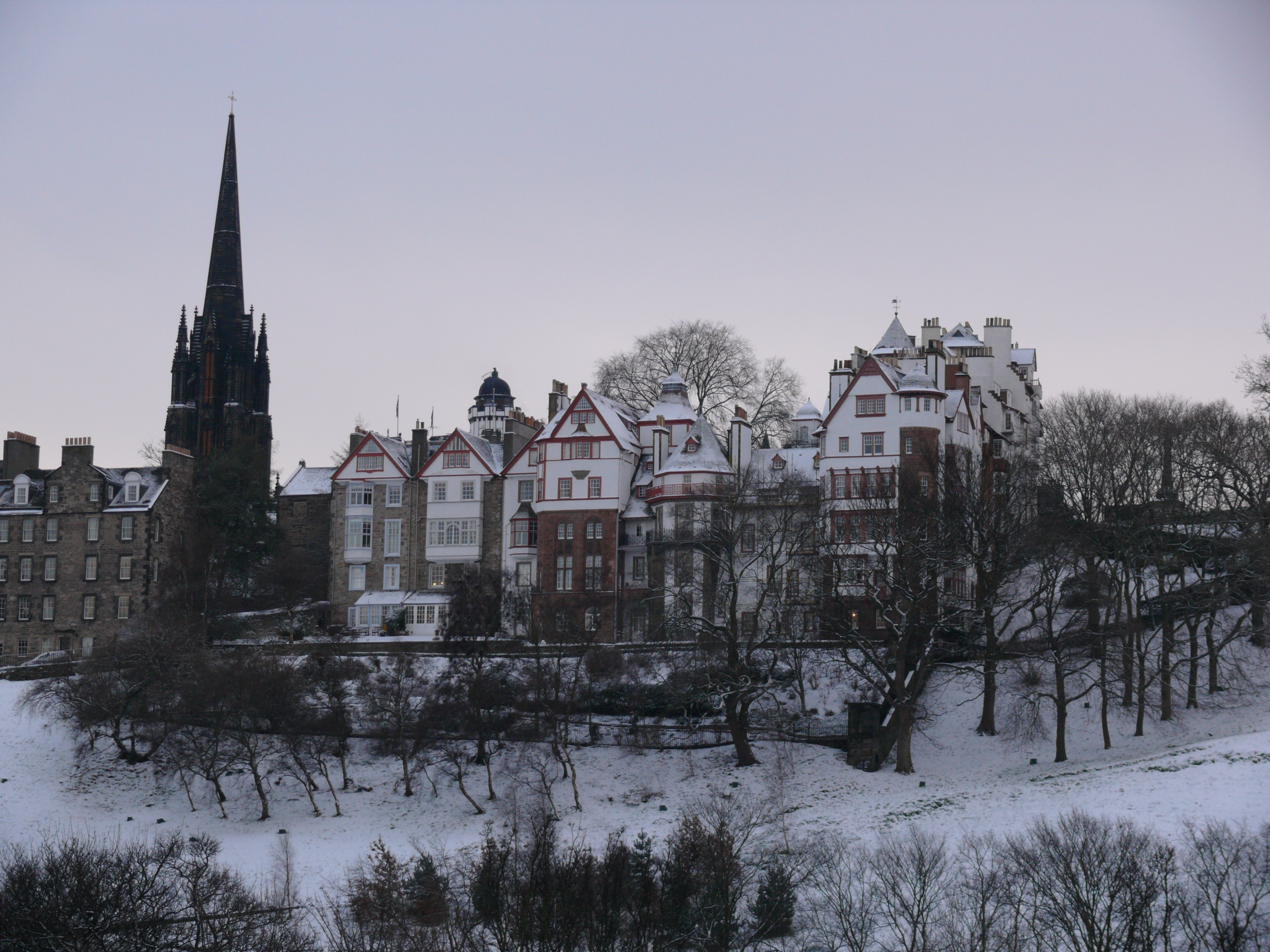 The north front of Ramsay Garden (including Nos. 13-16, a Grade A listed building) seen from Princes Street in the snow. Edinburgh, December 2009.